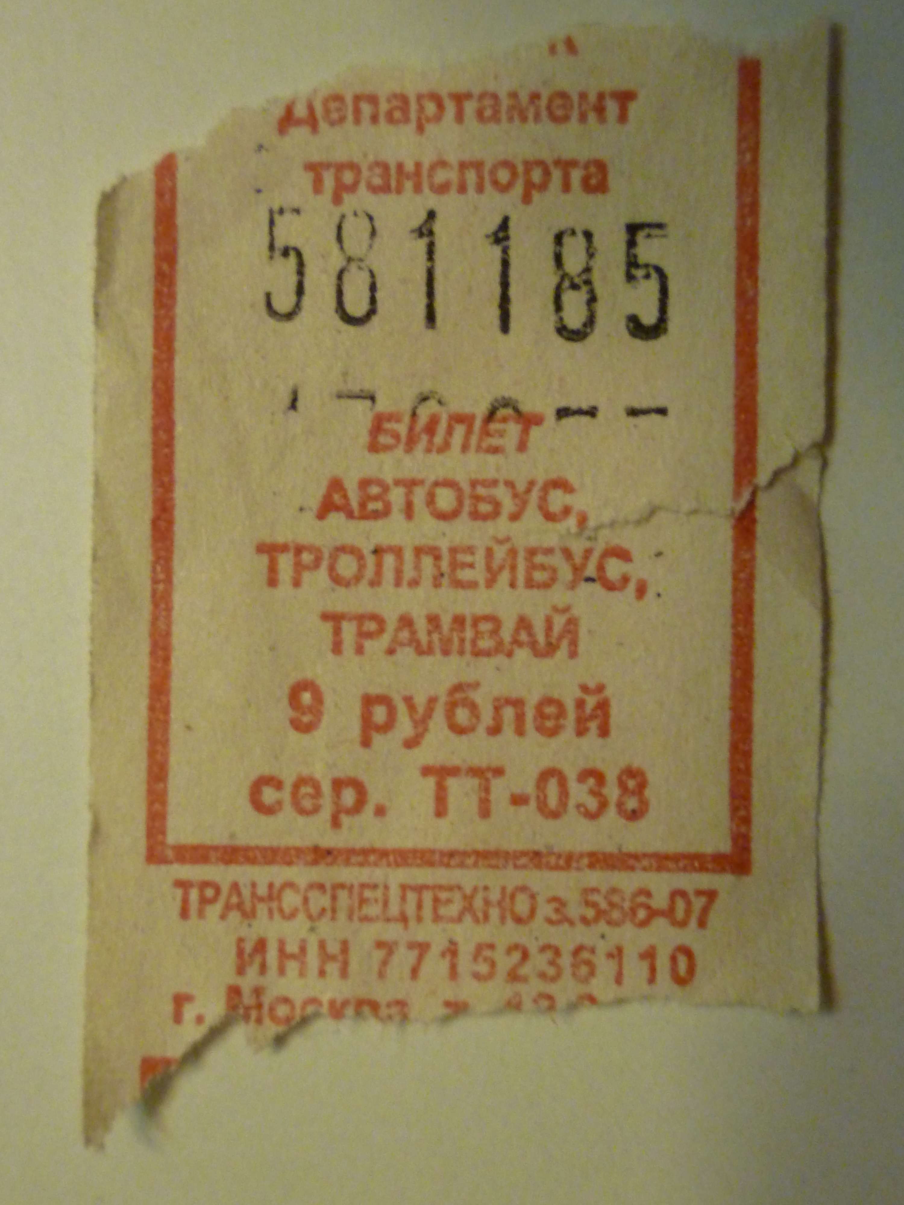 an old russian bus and tram ticket, what is “lucky ticket”